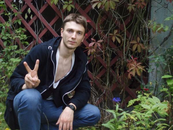 Meelis Kaldalu in Sweden, in front of wooden frames, perhaps associating with "Swedish curtains". A cornflower is also noticeable on the picture.